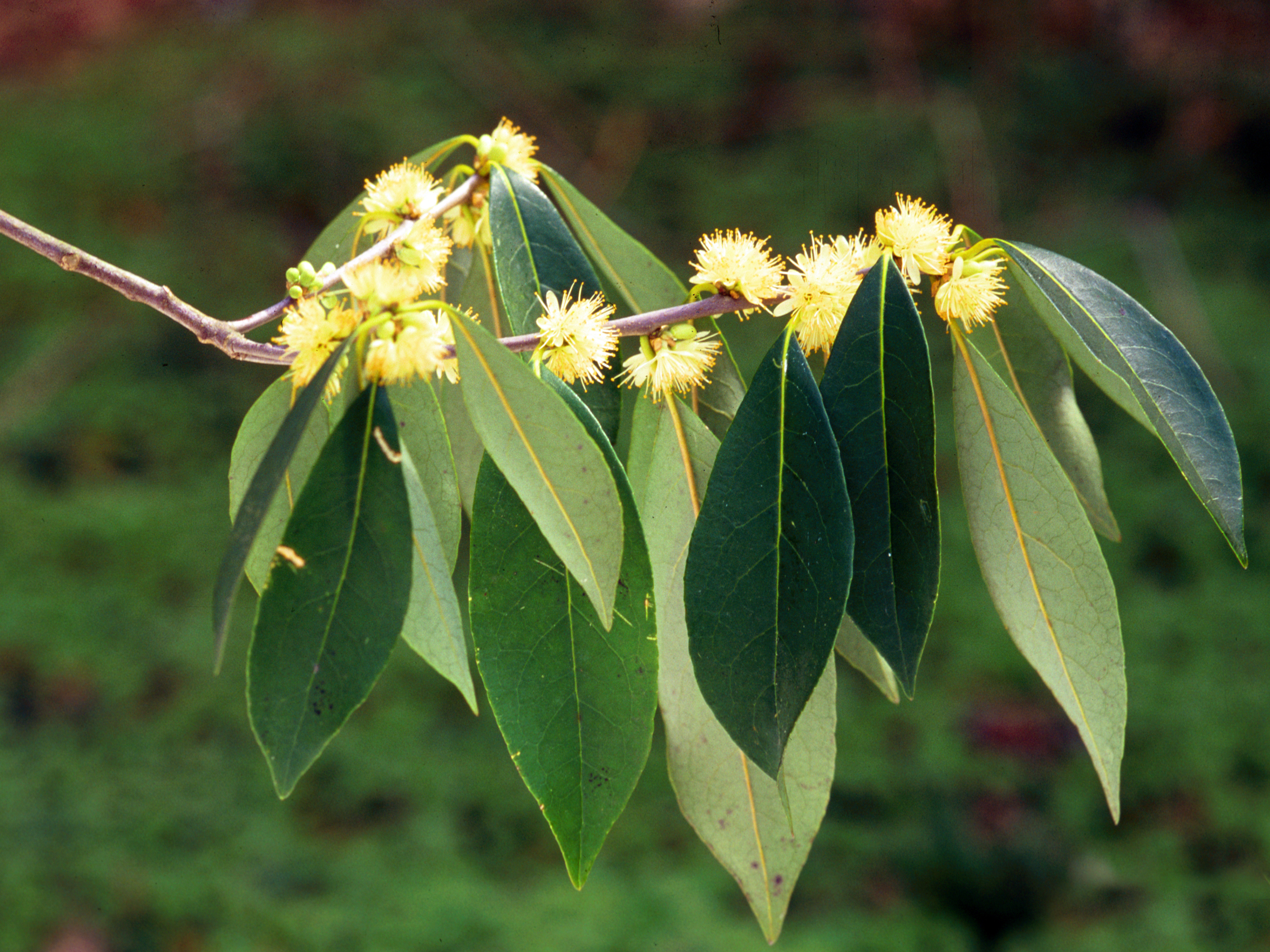 Symplocos tinctoria (L.) L'Hér. - common sweetleaf